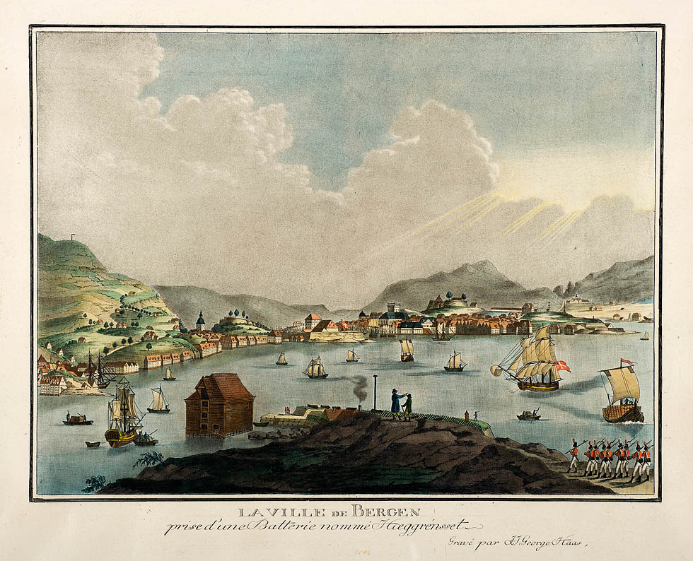 George Haas, «La vile de Bergen prise d' une Batterie nommé Hæggrénsset» in Christian August Lorentzen (1749–1828) Alternative names C.A. Lorentzen; LorensenDescriptionDanish painter and university teacherDate of birth/death 10 August 1749 8 May 1828Location of birth/death Sønderborg CopenhagenAuthority control : Q3416034 VIAF: 60181263 ISNI: 0000 0001 1653 4072 ULAN: 500023667 GND: 130141399 KulturNav: 4bdf27c4-8da5-4c85-b69a-92daaf0c7a34 creator QS:P170,Q3416034